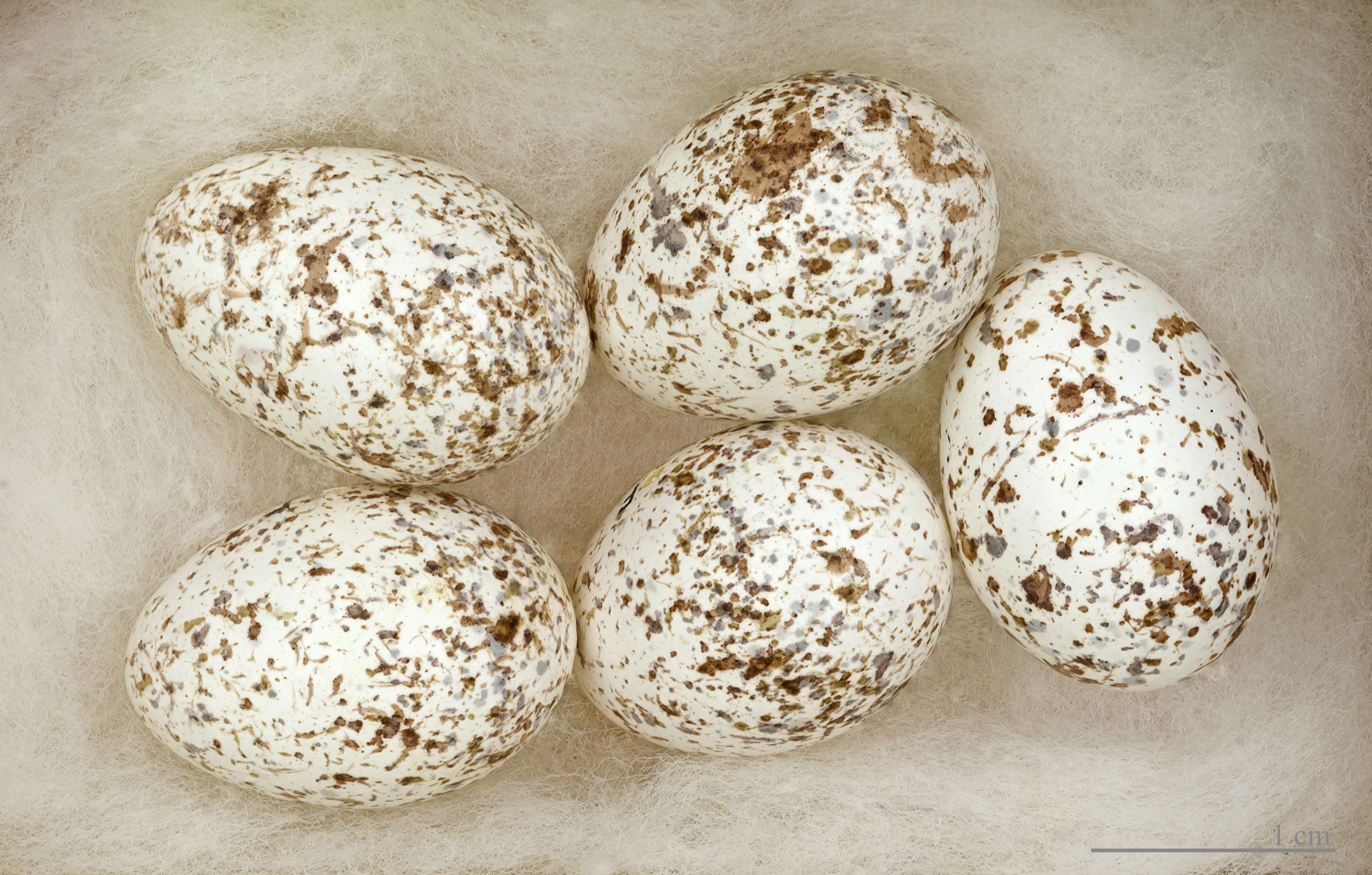 Egg of Eurasian Crag Martin. Collection of Jacques Perrin de Brichambaut